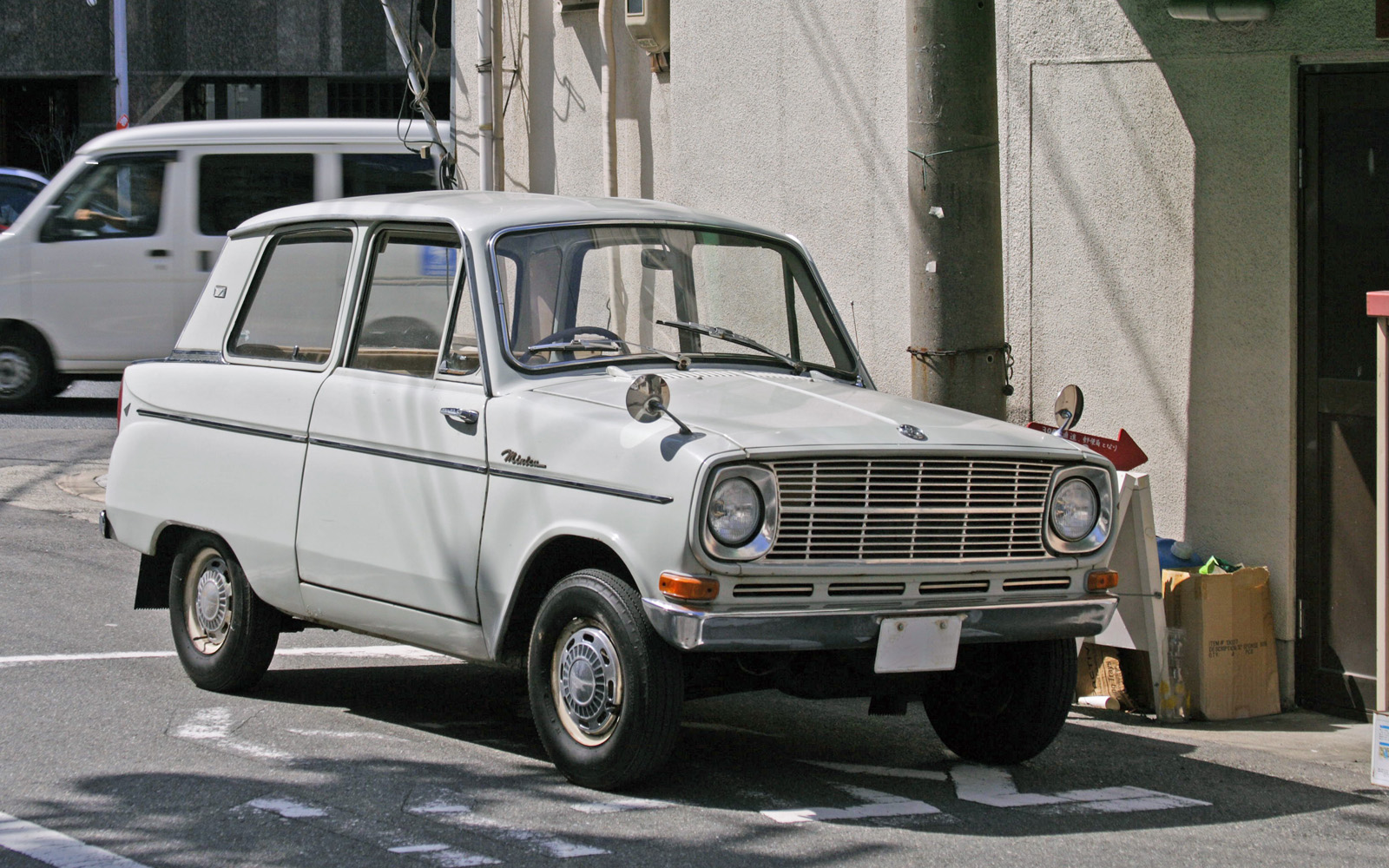 the first Minica by Mitsubishi Motor Company